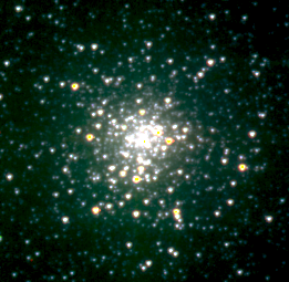 Image of the M62 star cluster in infrared at 3.6 (blue), 4.5 (green) and 8.0 µm. The image has been made by myself (Médéric Boquien) from the public image archive of the Spitzer Space Telescope (courtesy NASA/JPL-Caltech).